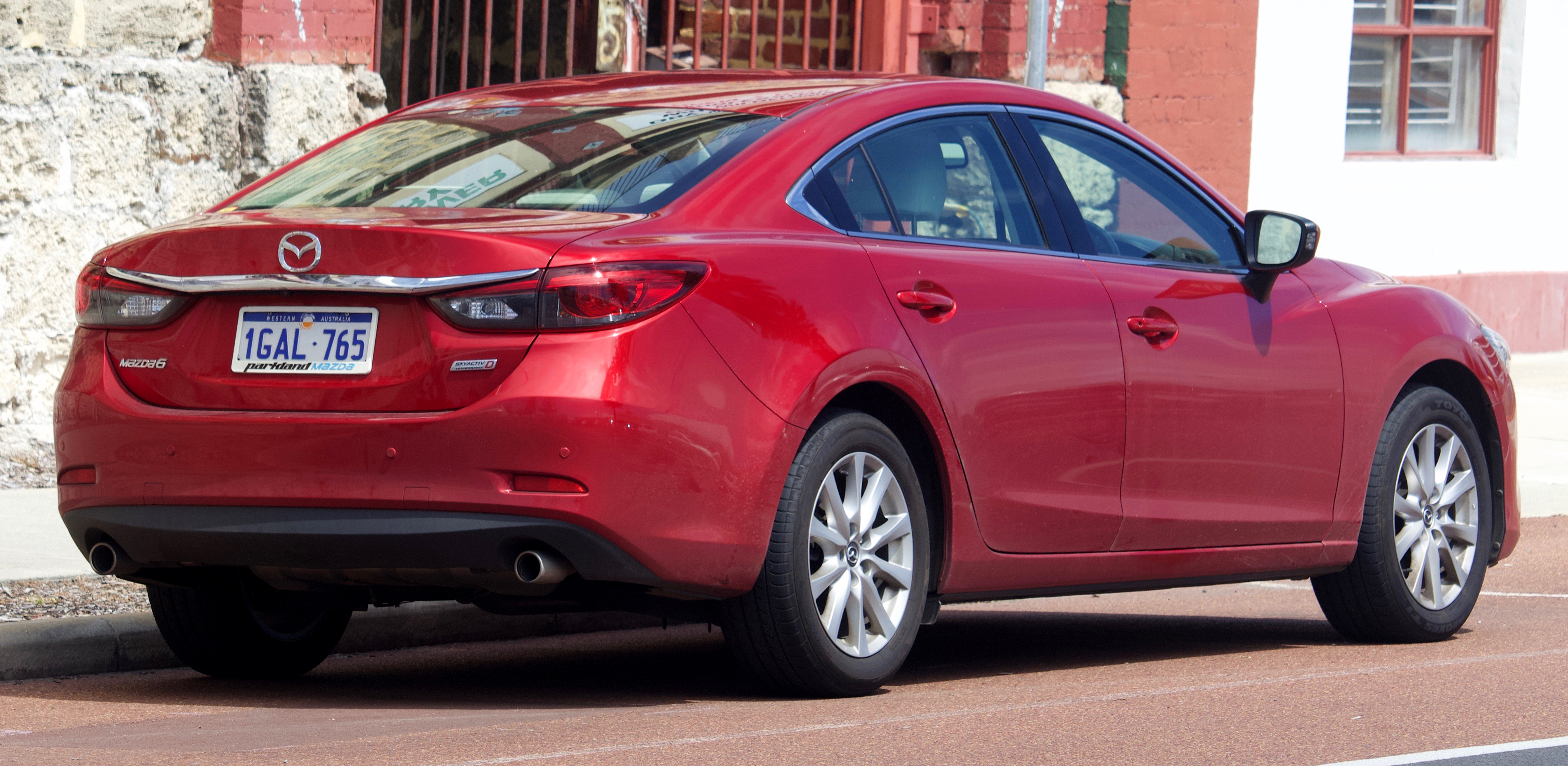 2016 Mazda6 (GJ Series 2) Touring sedan. Photographed in Fremantle, Western Australia, Australia.